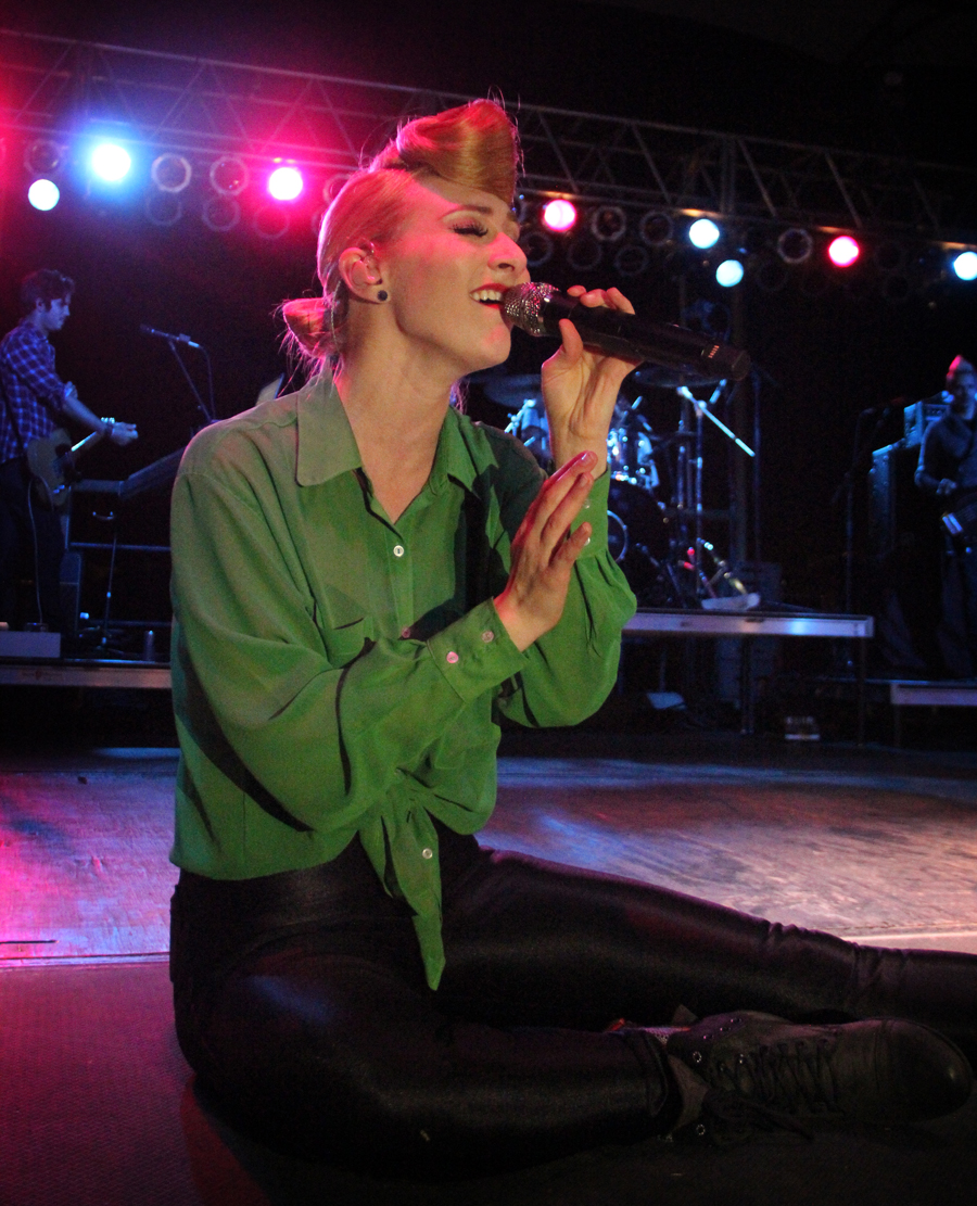 Spring Concert: Karmin 4.11.13